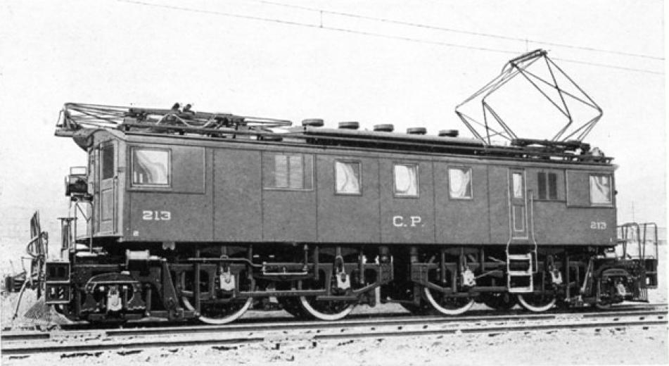 Electric locomotive No. 213 of the Paulista Railroad, built by Baldwin and Westinghouse in the U.S. in 1921, especially for passenger transport, publishing the book The Baldwin Locomotive Works - BaldwinAin Brazil, 1922 pg 22